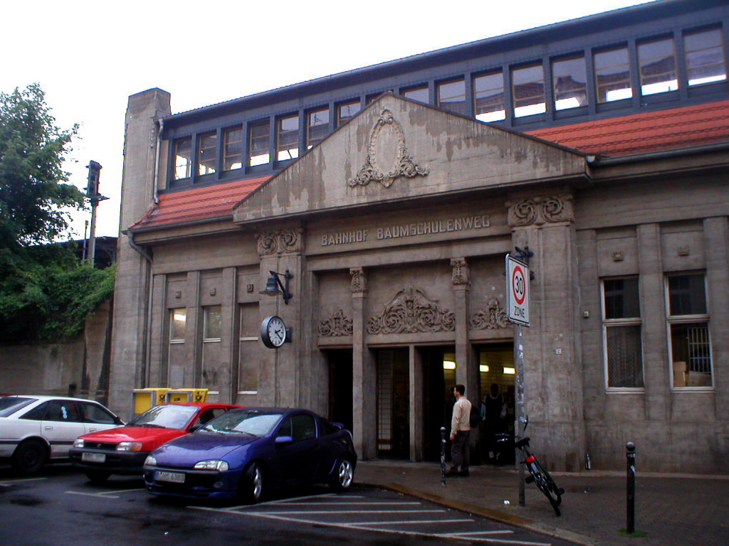 Rear-Entrance of the Berlin-S-station Baumschulenweg